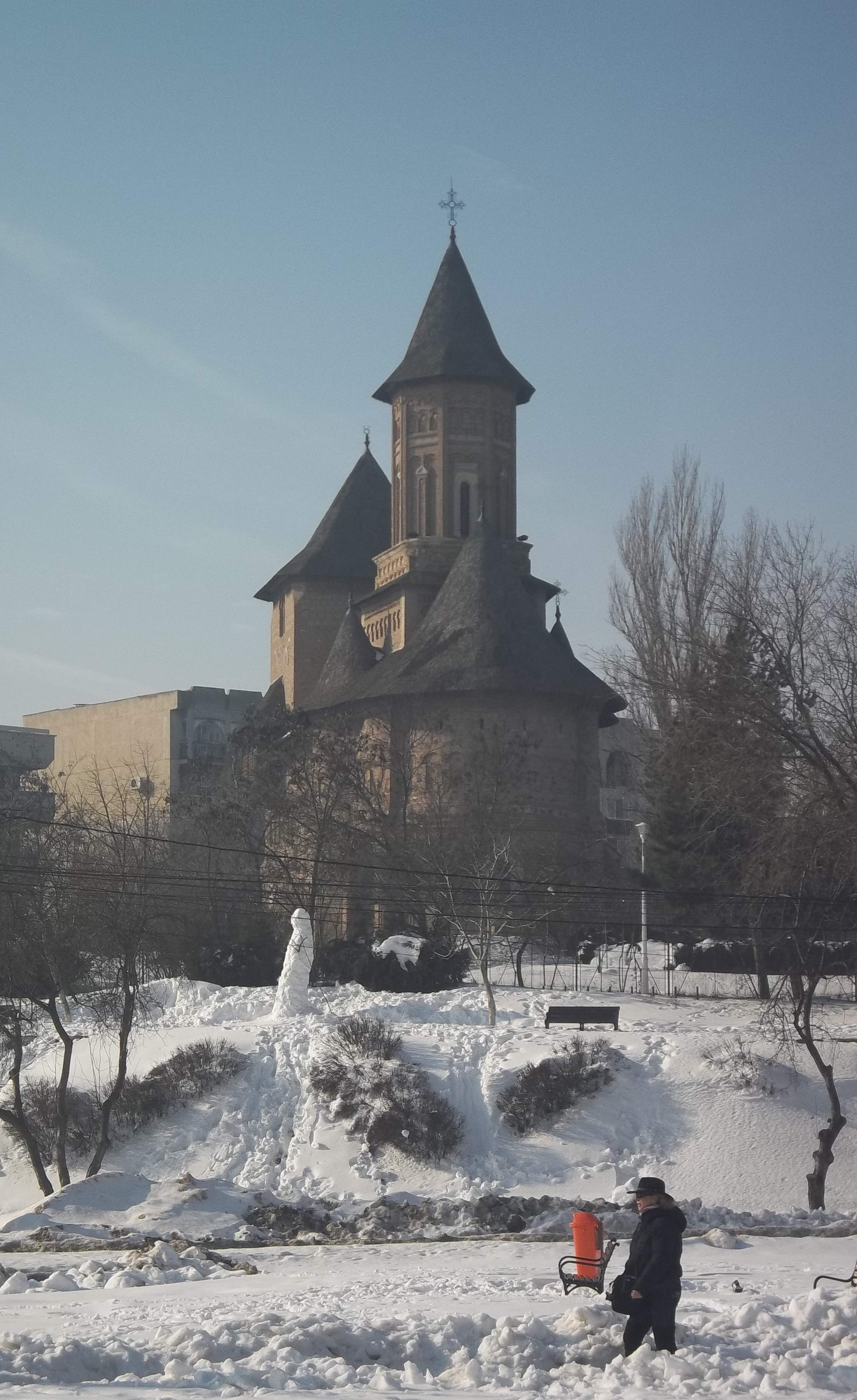 Fortified Orthodox Chrurch "Saint Precista", Galati, Galatz, Romania in the winter